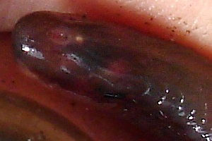 Head of young lamprey Eudontomyzon mariae (Ubort River, Ukraine). Pineal complex (unpaired eyes) is seen as white spot behind of nostril